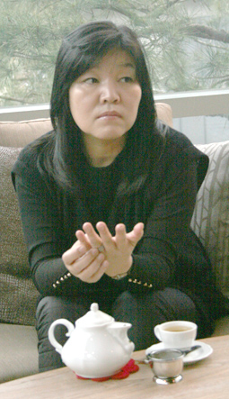 A photo of Shin Kyung-sook at the cafe at the Kim Jong-yeong Museum.